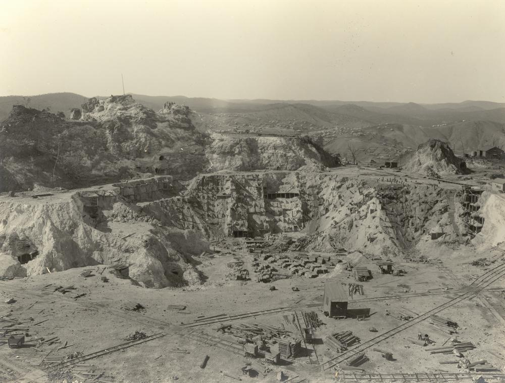 Panoramic view of the diggings, the town of Mount Morgan and the country behind The crisscross pattern of the shuttle train's tracks can be seen at the base of the mine. In the middle distance, the mining shafts are visible with their wooden supports and in the distance is the town of Mount Morgan.